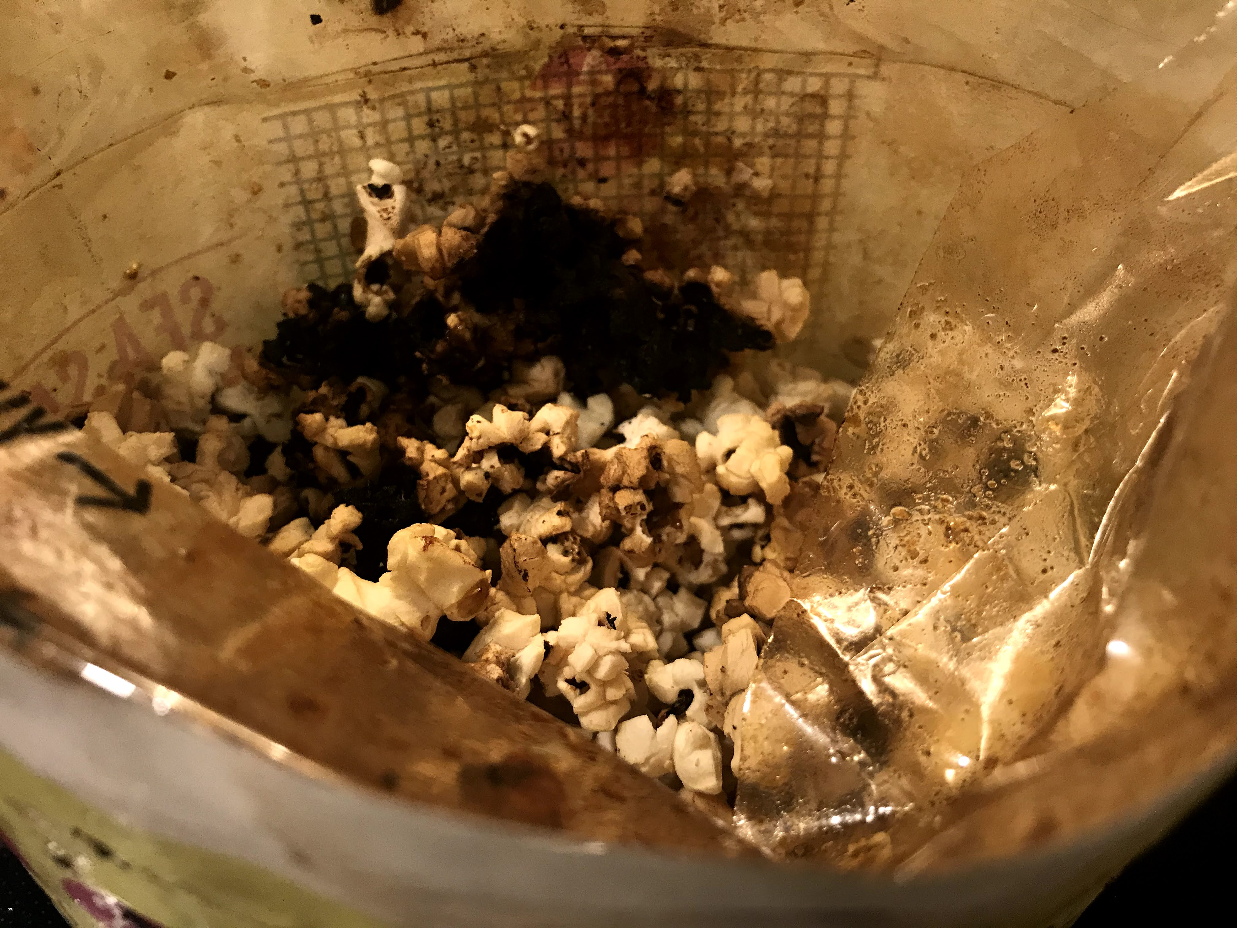 This black, charred popcorn was burnt by someone who left it for too long in the microwave